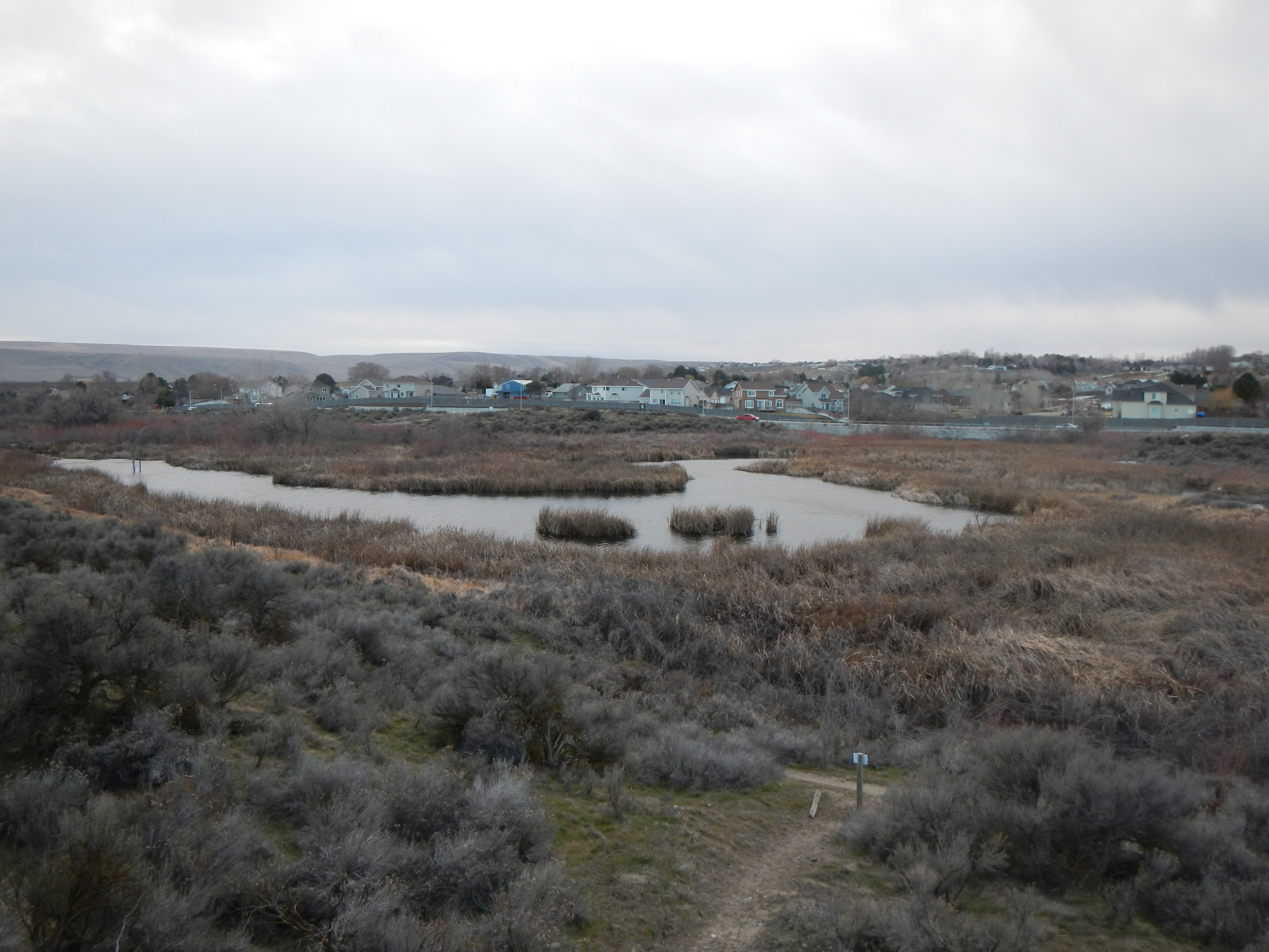 This is the West Fork of Amon Creek in Richland, Washington.